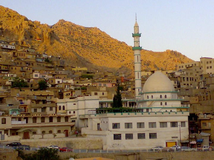 Aqrah city Kurdî: Akrê, Bashûrê Kurdistanê, Îraqa Federal